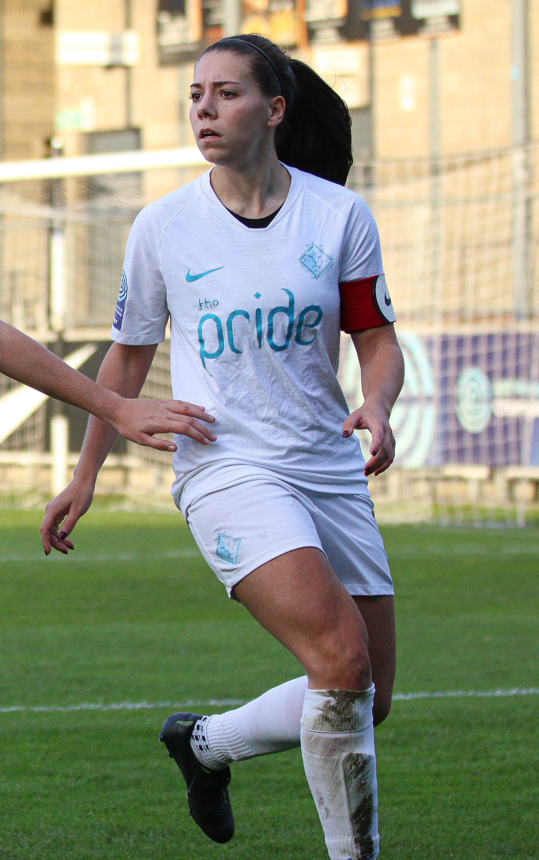 Ellie Mason of London Lionesses playing against Lewes FC in October 2019.